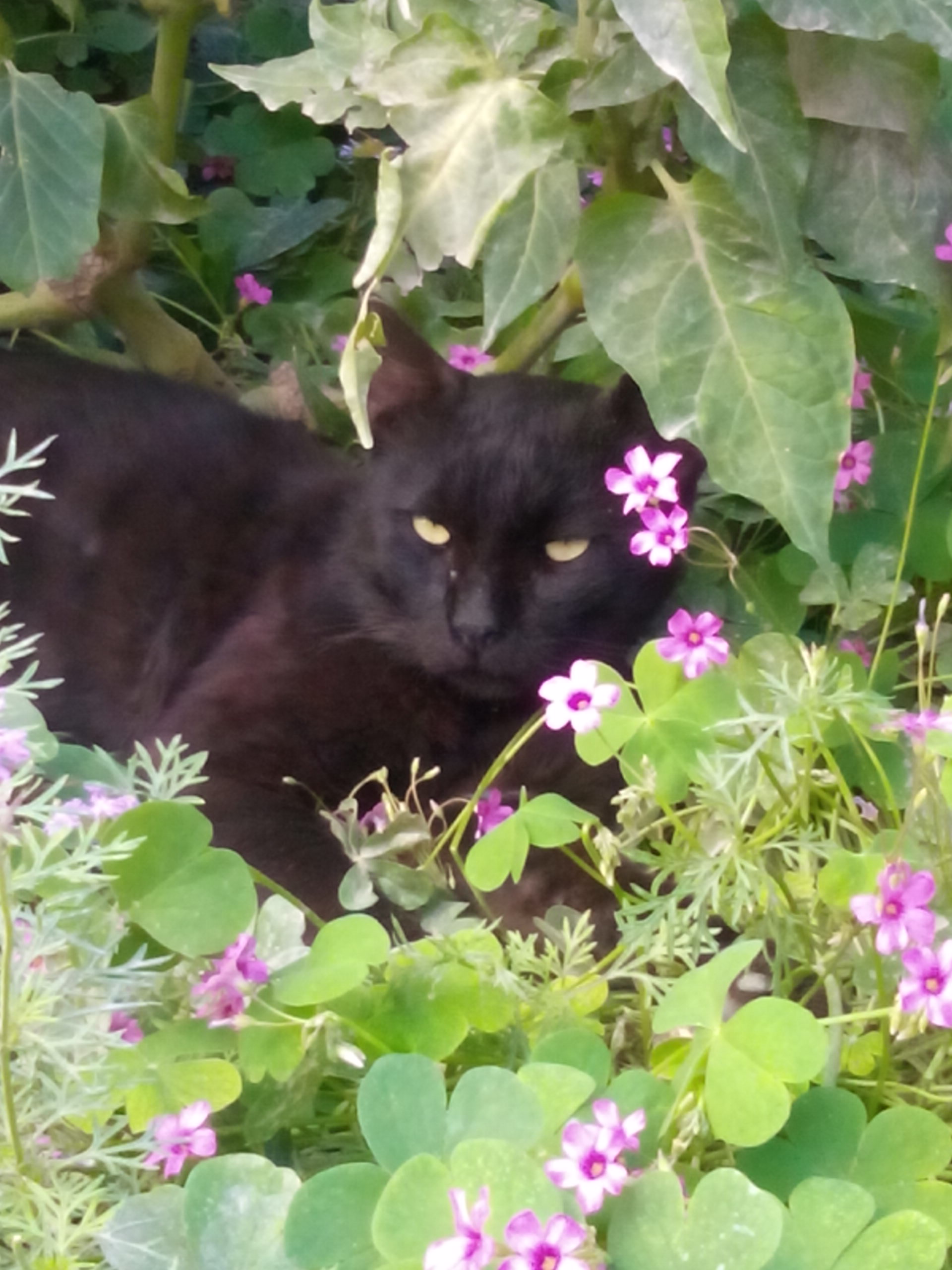 Black Cat in the Garden